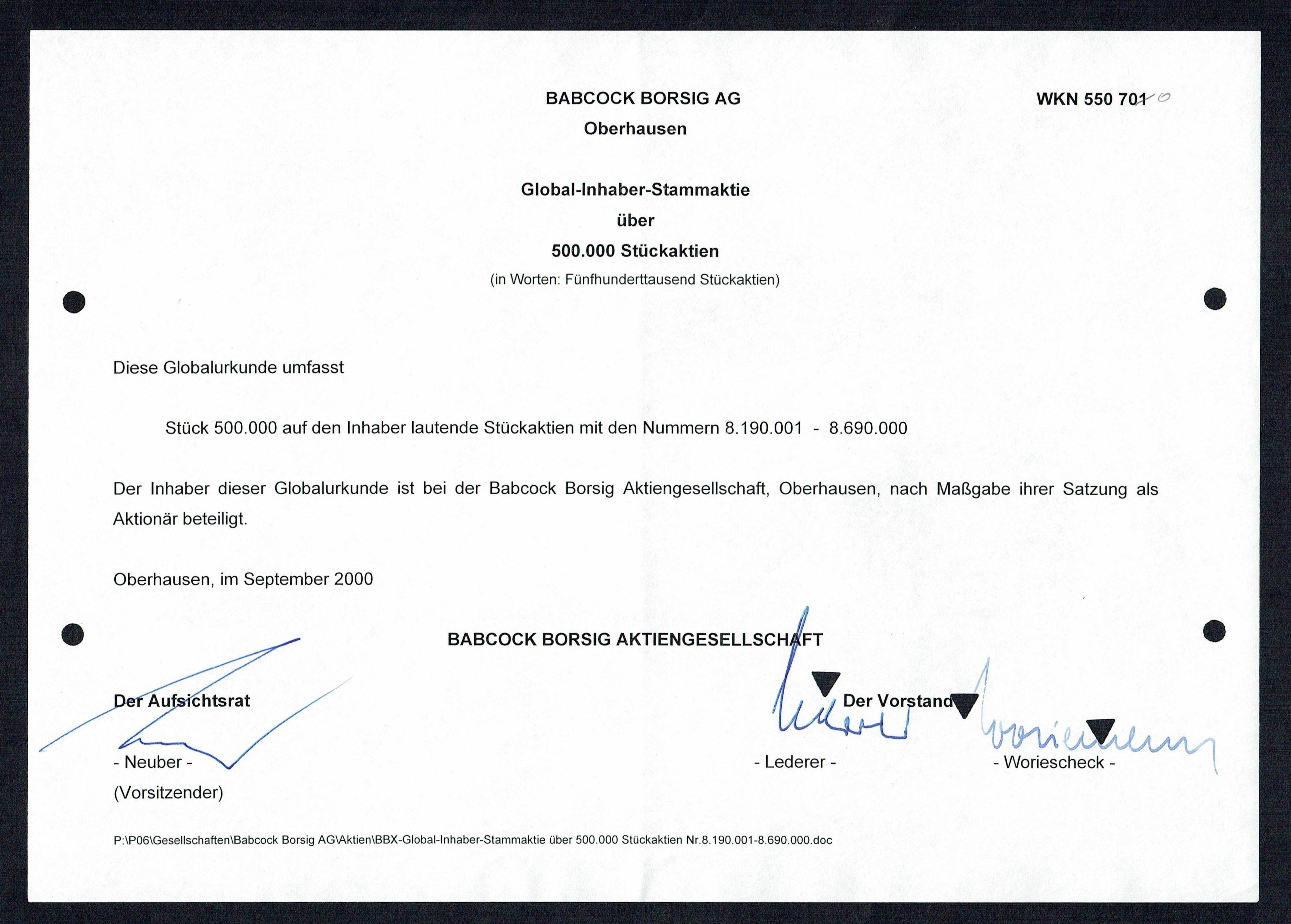 Global certificate of the Babcock Borsig AG, issued September 2000